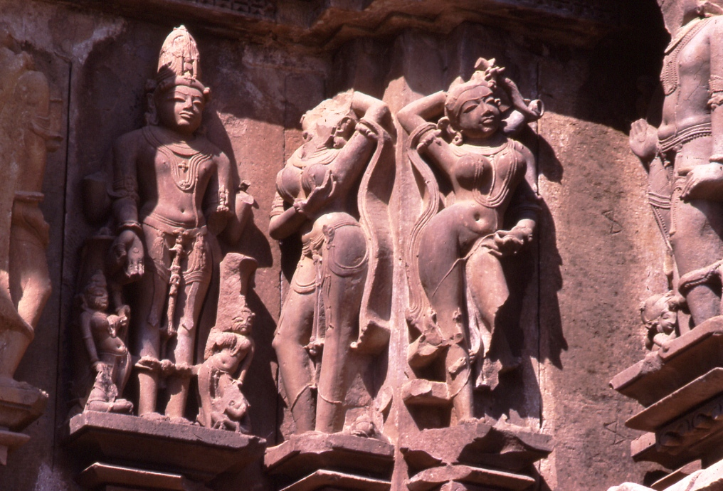 Apsarases, Chitragupta Temple , Khajuraho, Madhya Pradesh, India.